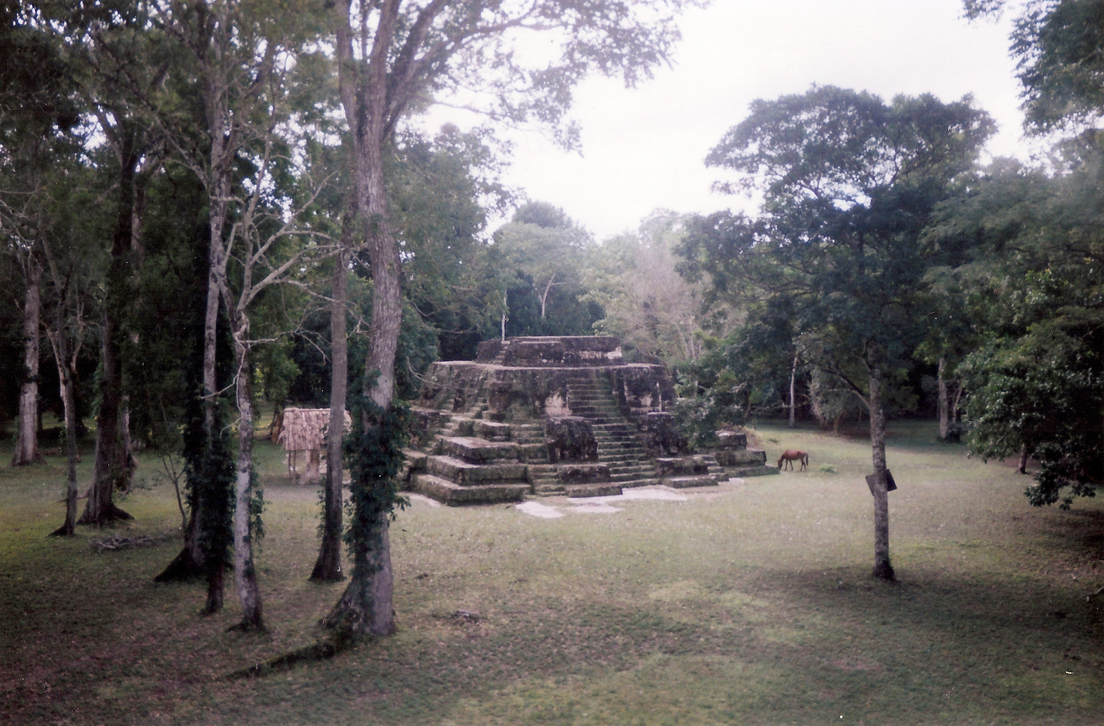 Structure EVII-sub at Uaxactun, El Peten, Guatemala.